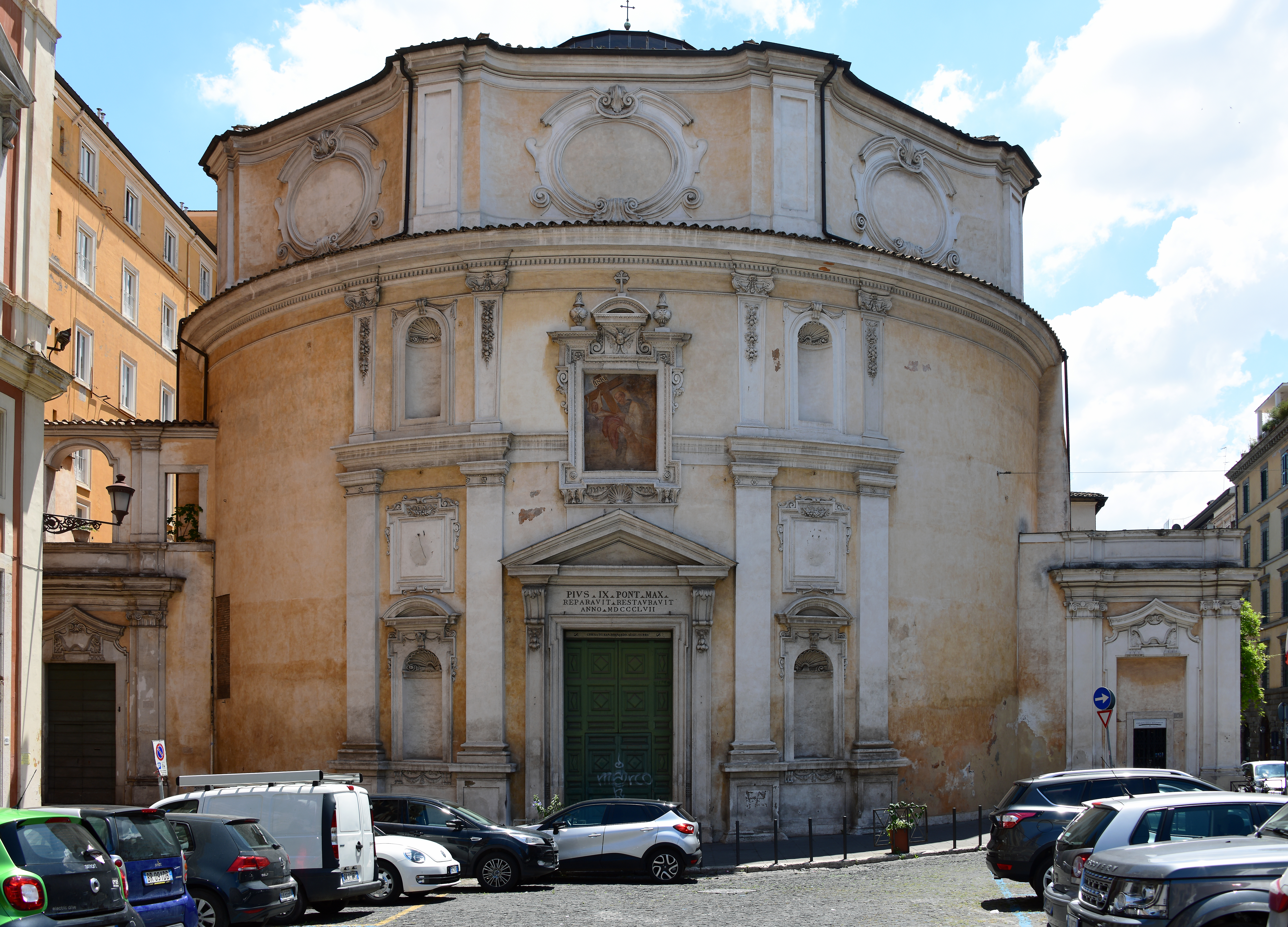 San Bernardo alle Terme (Rome) - Front